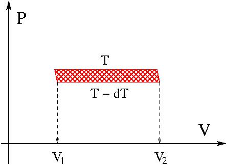 PV-diagram used in derivation of the Stefan-Boltzmann law.